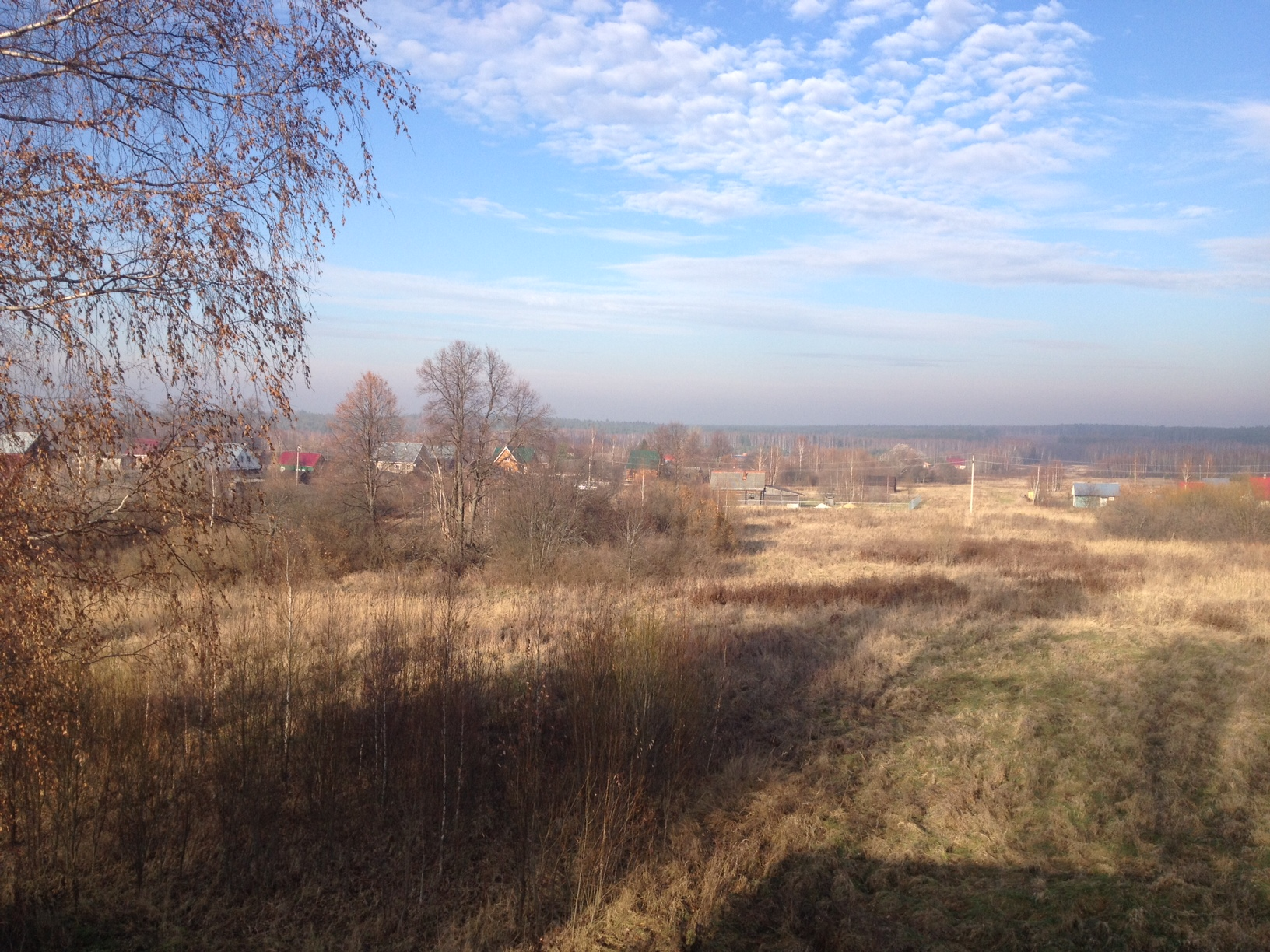 selo Rusino